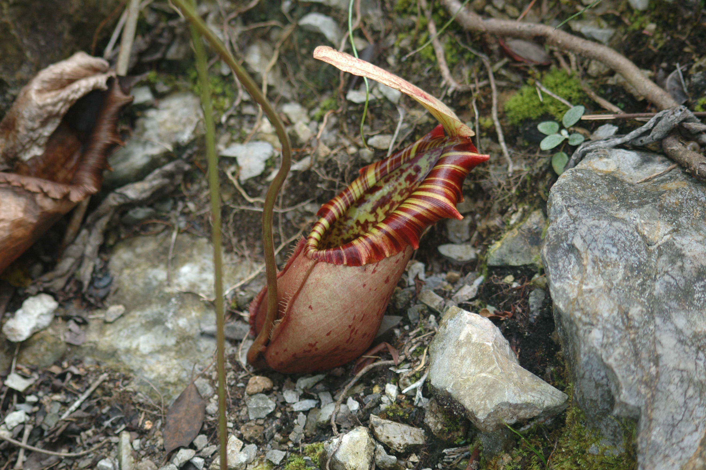 Nepenthes northiana growing in Bau Sarawak By Jeremiah Harris